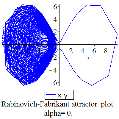 Rabinovich Fabricant xy plot alpha=0